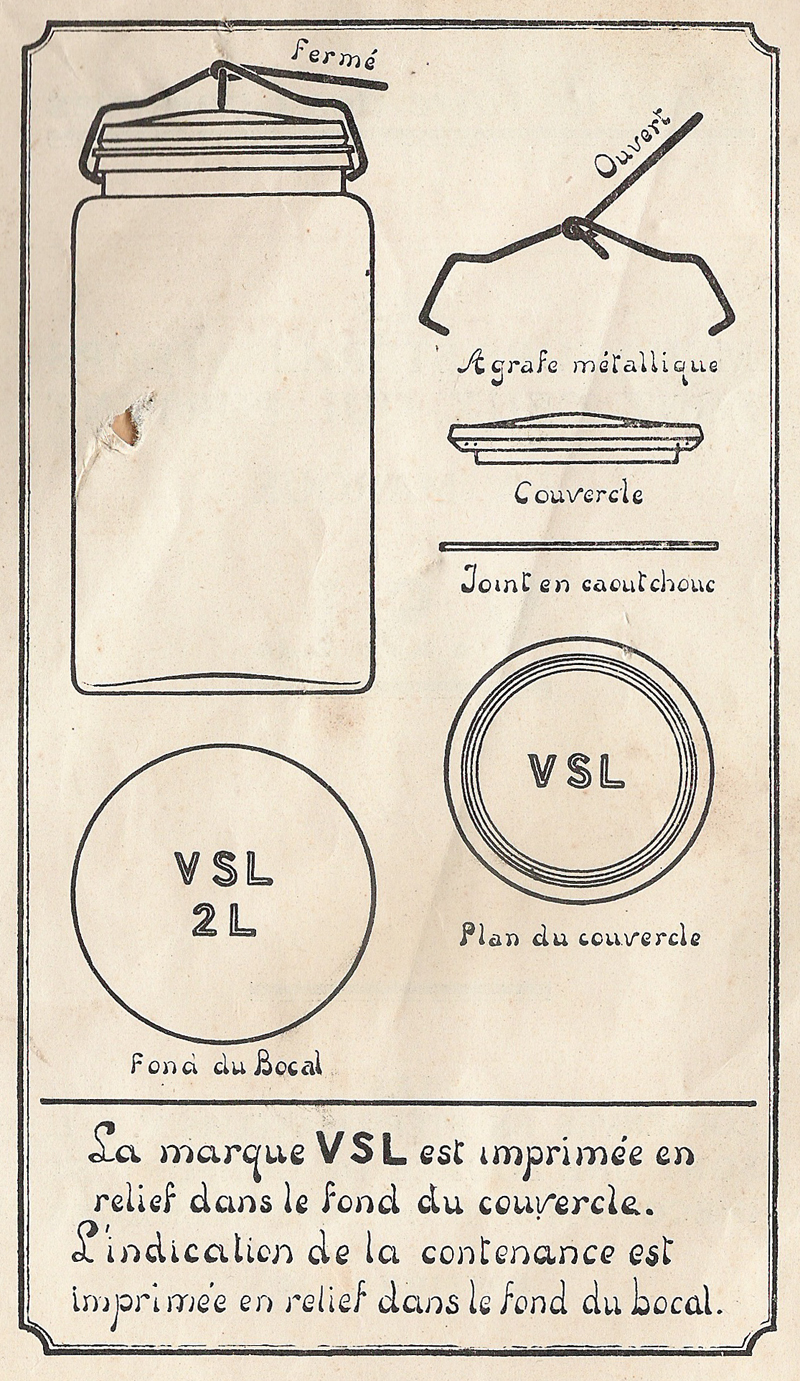 The best sterilizers are those who bear the markVSL, Ed. 1932 brochure advertising the manufacturer of Val Saint-Lambert, Seraing – book available at the Library of Gastronomy Hermalle-sous-Huy.